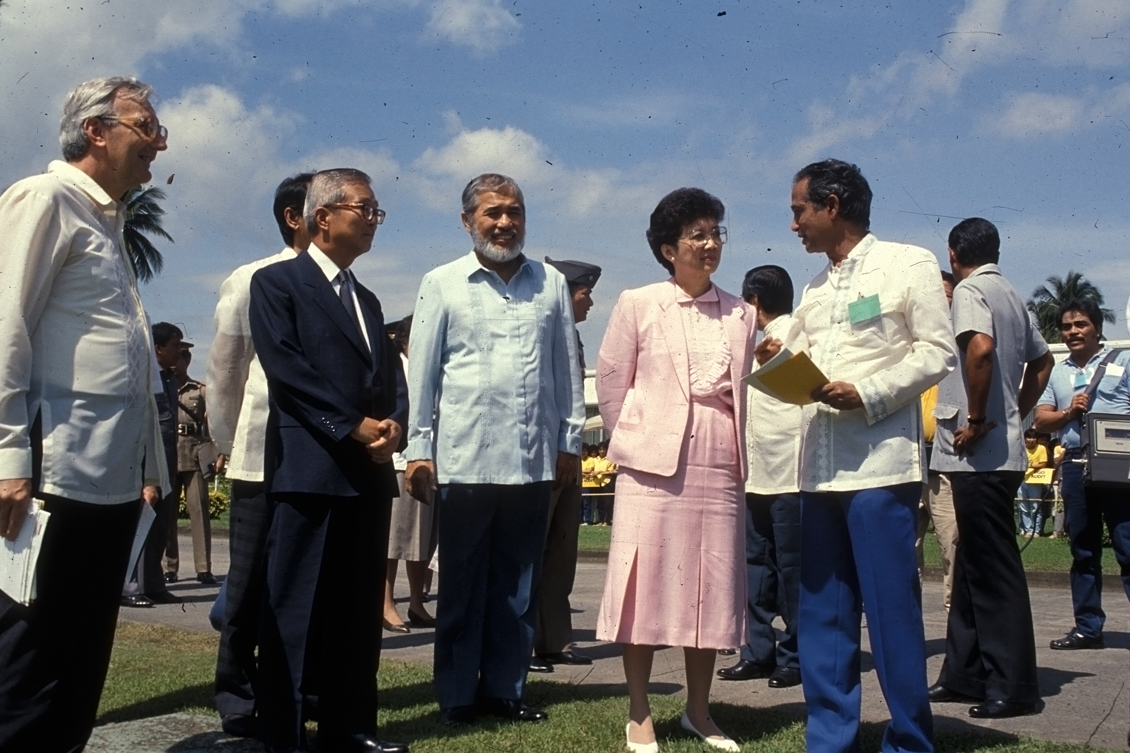 Philippine President Corazon Aquino visits IRRI in 1986. Part of the image collection of the International Rice Research Institute (IRRI).